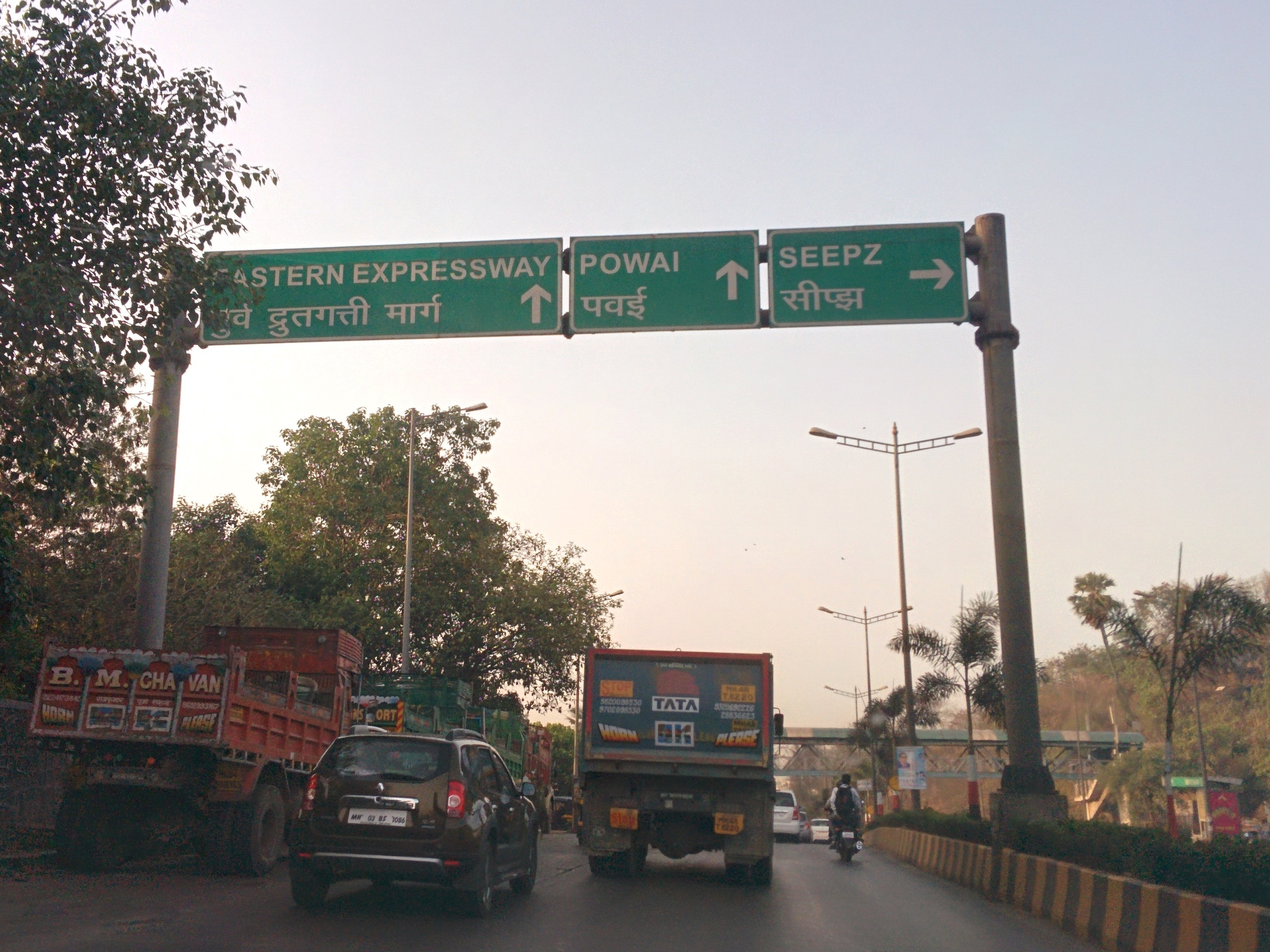 Jogeshwari Vikhroli Link Road near Seepz in Mumbai.